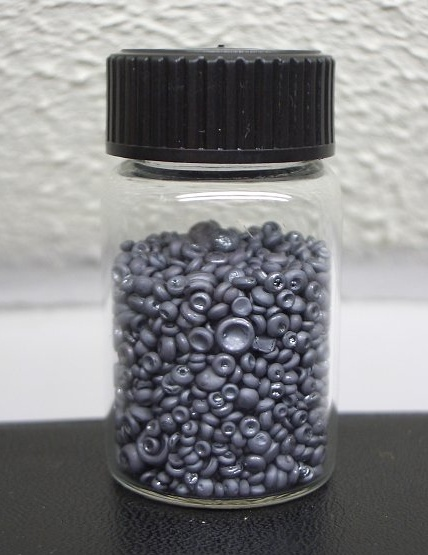 The black vitreous selenium allotrope